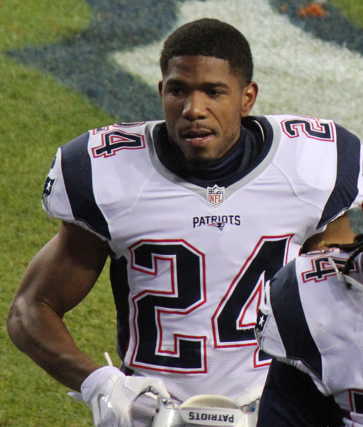 Rashaan Melvin, a player on the National Football League.